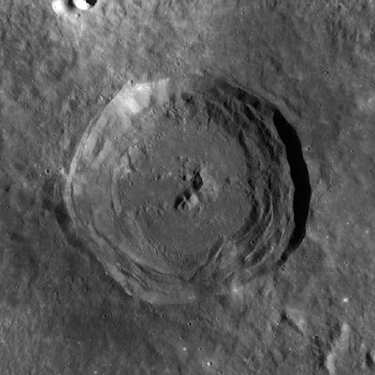 Maunder crater, on the far side of the moon. Mosaic of LRO WAC images.